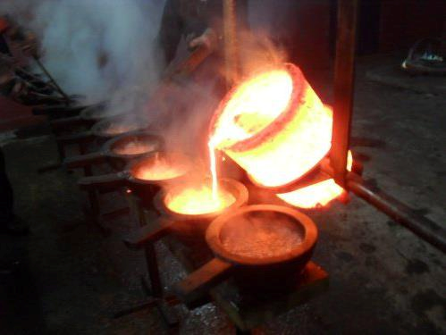 Pouring molten Bronze Alloy into Casts at Supernaturals Foundry , Istanbul, Turkey